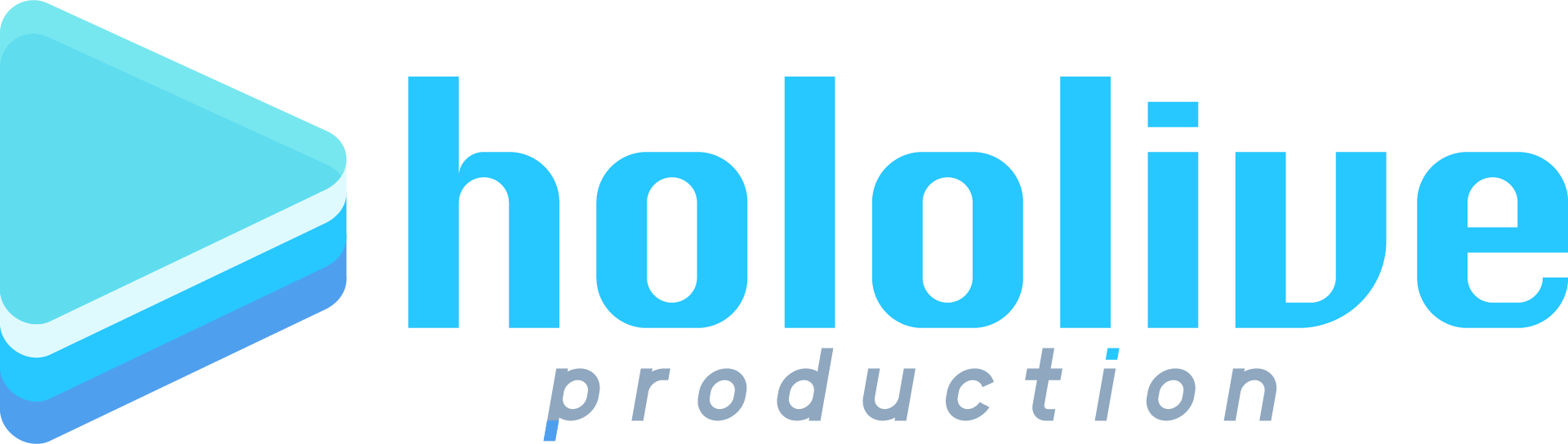 Hololive Production logo